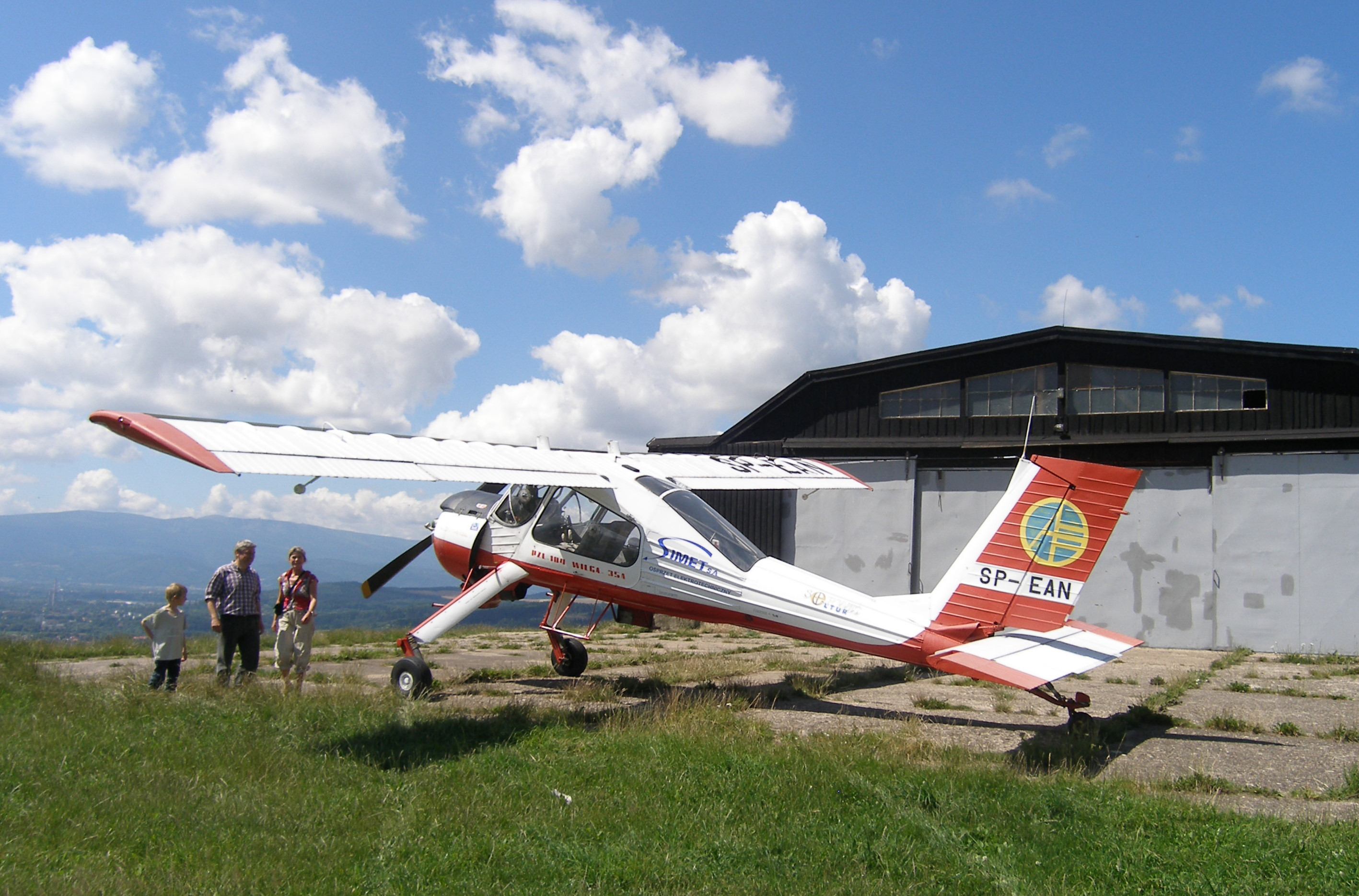 Wilga on the old airfield outside Jelina Gora